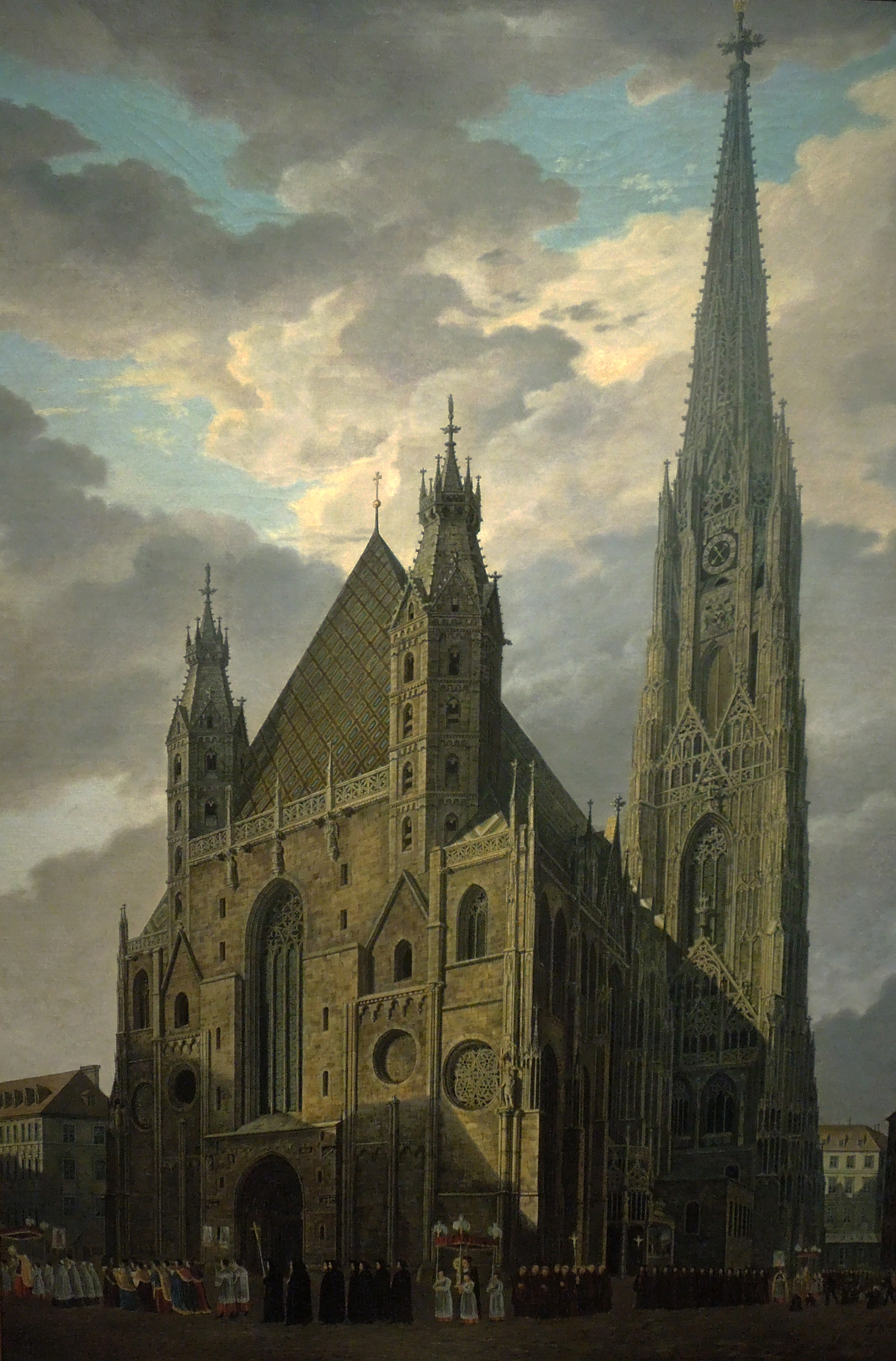 Johann Heinrich Hintze - St. Stephen's Cathedral in Vienna, 1828, oil on canvas